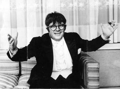 Argentine actor Tato Bores, wearing his distinctive black etiquette suit.